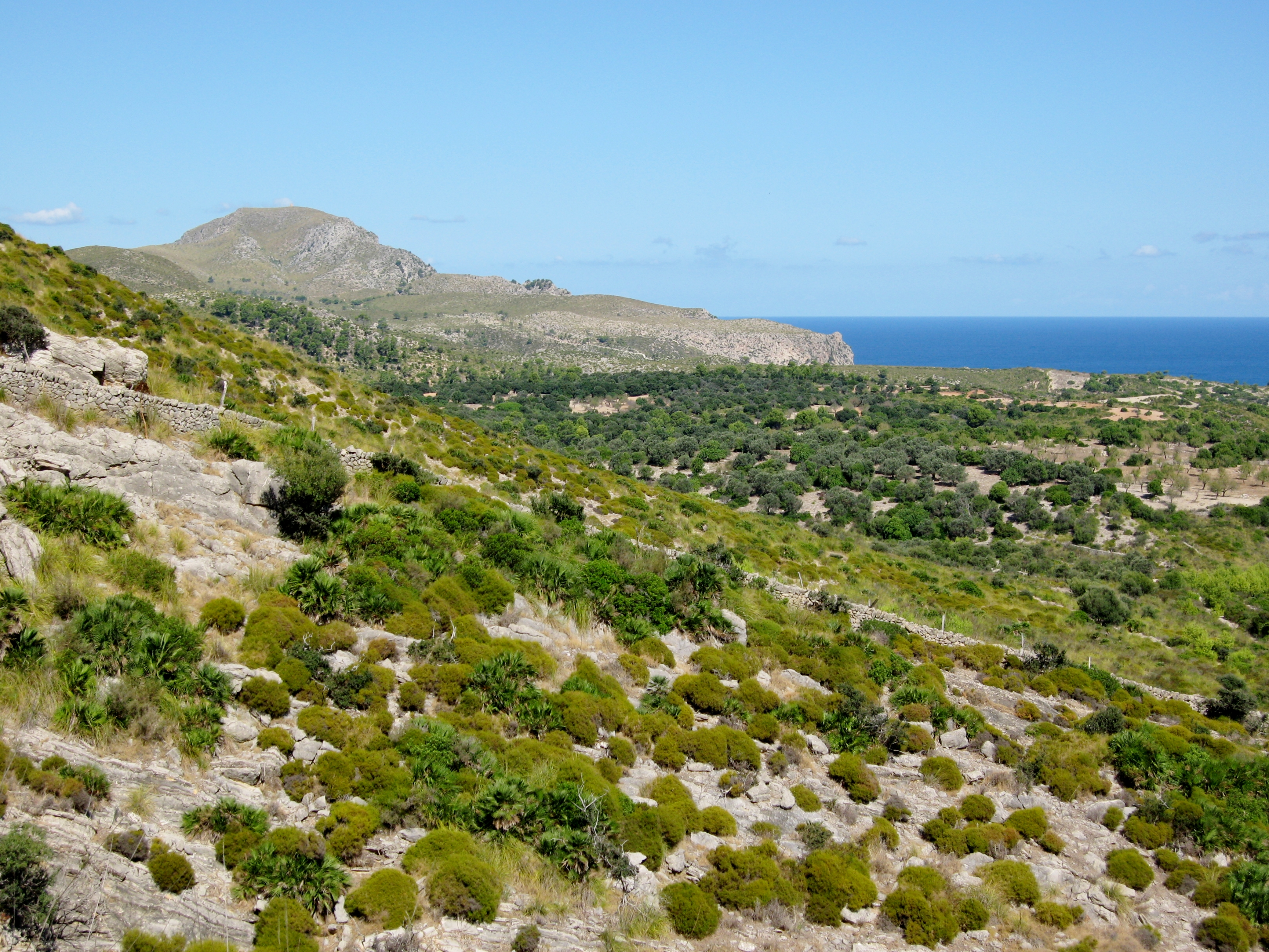 Parque natural de la Península del Llevant — de las Islas Baleares.